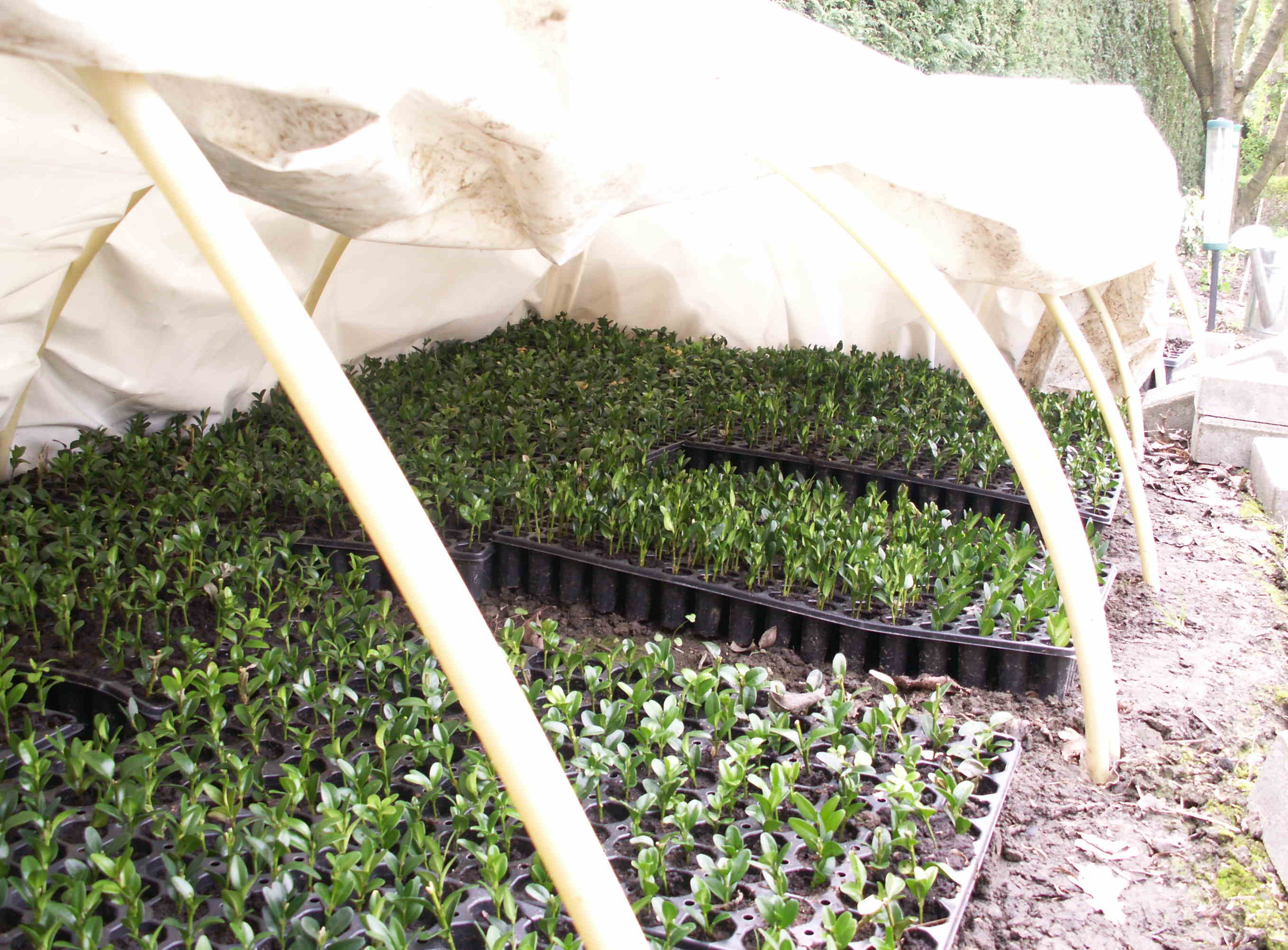 A small plastic greenhouse used for cuttings. It is used to keep the cuttings humid while rooting (a prequisty for the cuttings to catch on). The cuttings are from Buxus sempervirens.